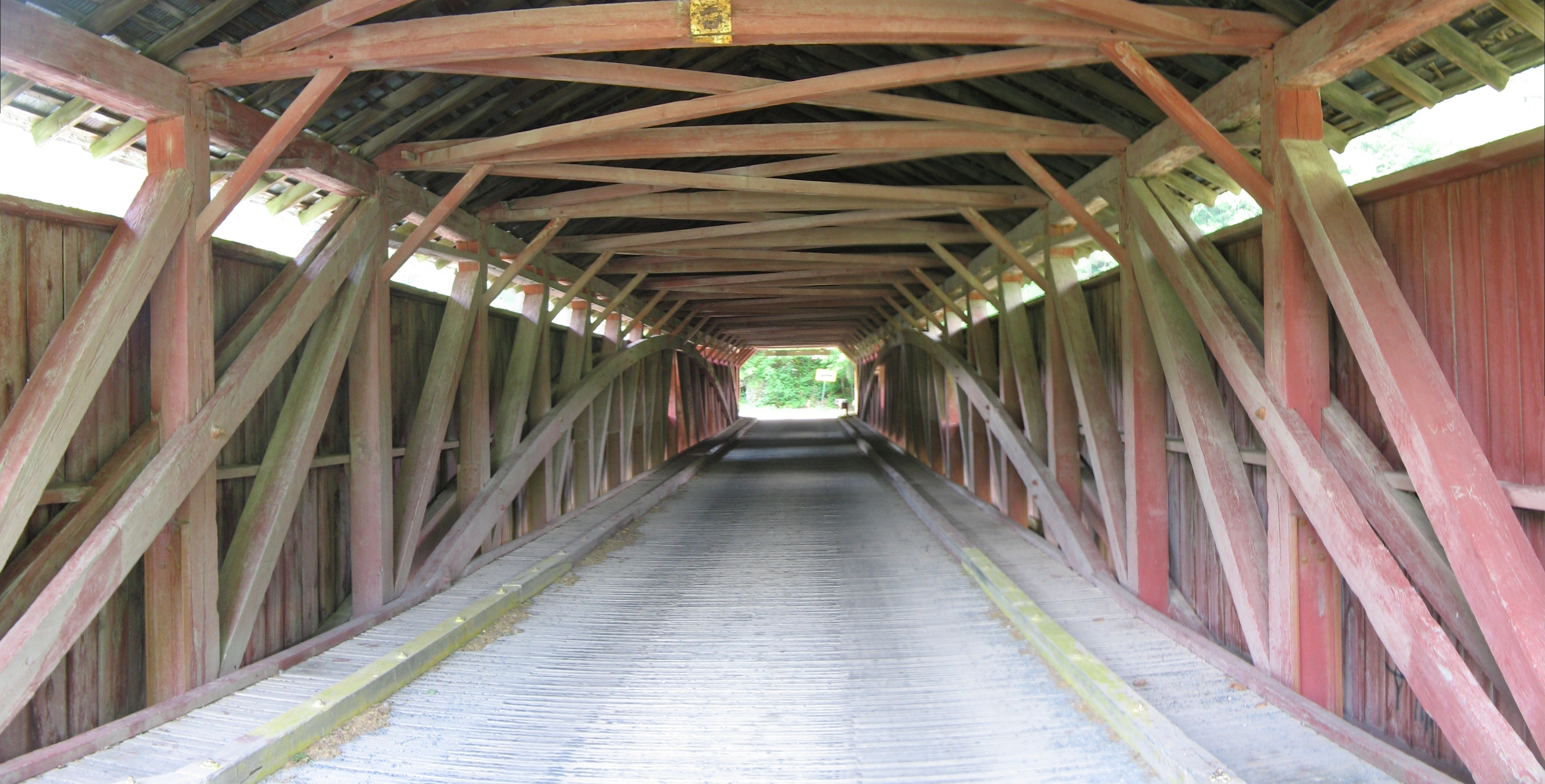 Interior of Hillsgrove Covered Bridge over Loyalsock Creek in Hillsgrove Township, Sullivan County, Pennsylvania in the United States. Looking west from east portal.